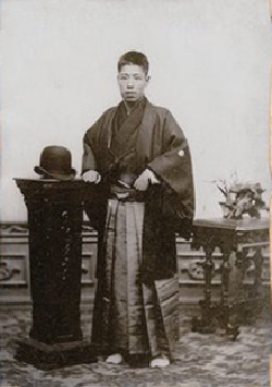 Standing man with bowler hat on a pedestal, November 19, 1892,ambrotype in kiri-wood case, with inscribed calligraphy in ink,12.4 × 9.5 × 1.5 cm (closed),Collection of Geoffrey Batchen, New Zealand. Reproduced in "Japanese Ambrotypes" by Geoffrey Batchen, Yoshiaki Kai and Masashi Kohara (TAP 1:2).